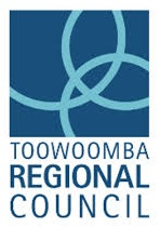 TRC Logo